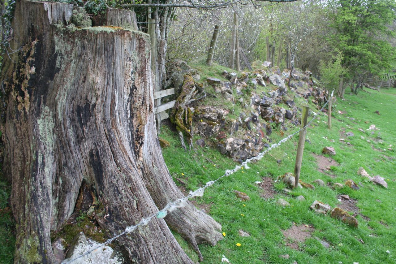 Hadrian's Wall remains